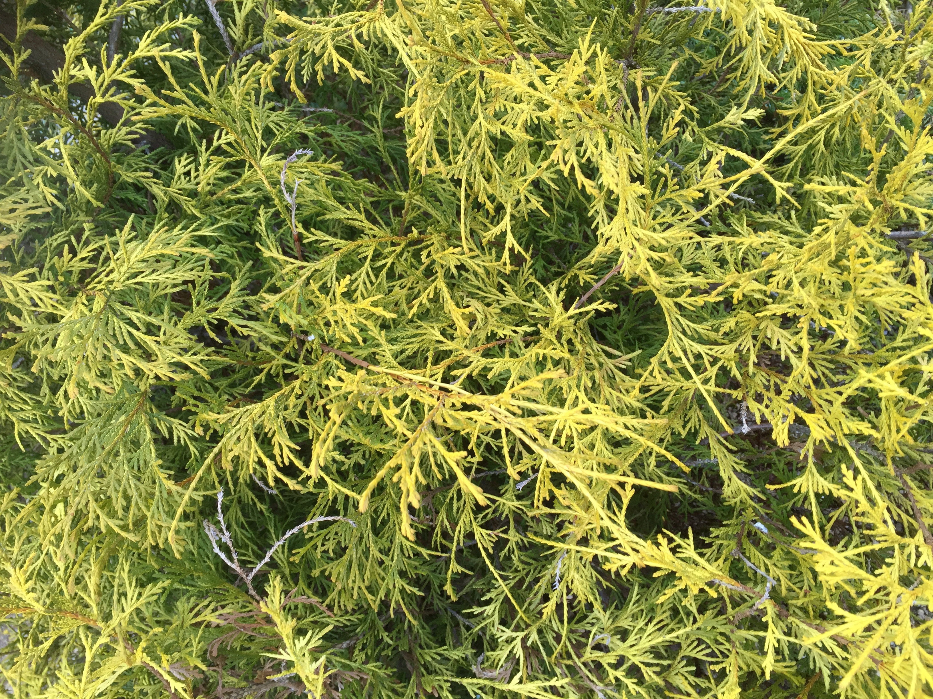 Chamaecyparis pisifera"Felifera Aurea"